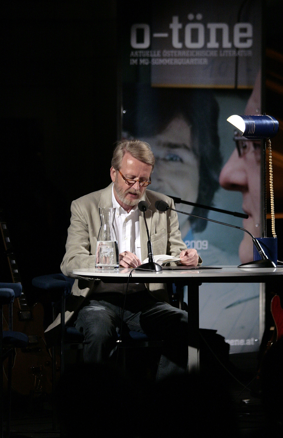 Writer Gernot Wolfgruber; reading at the literary festival O-Töne at the Museumsquartier in Vienna